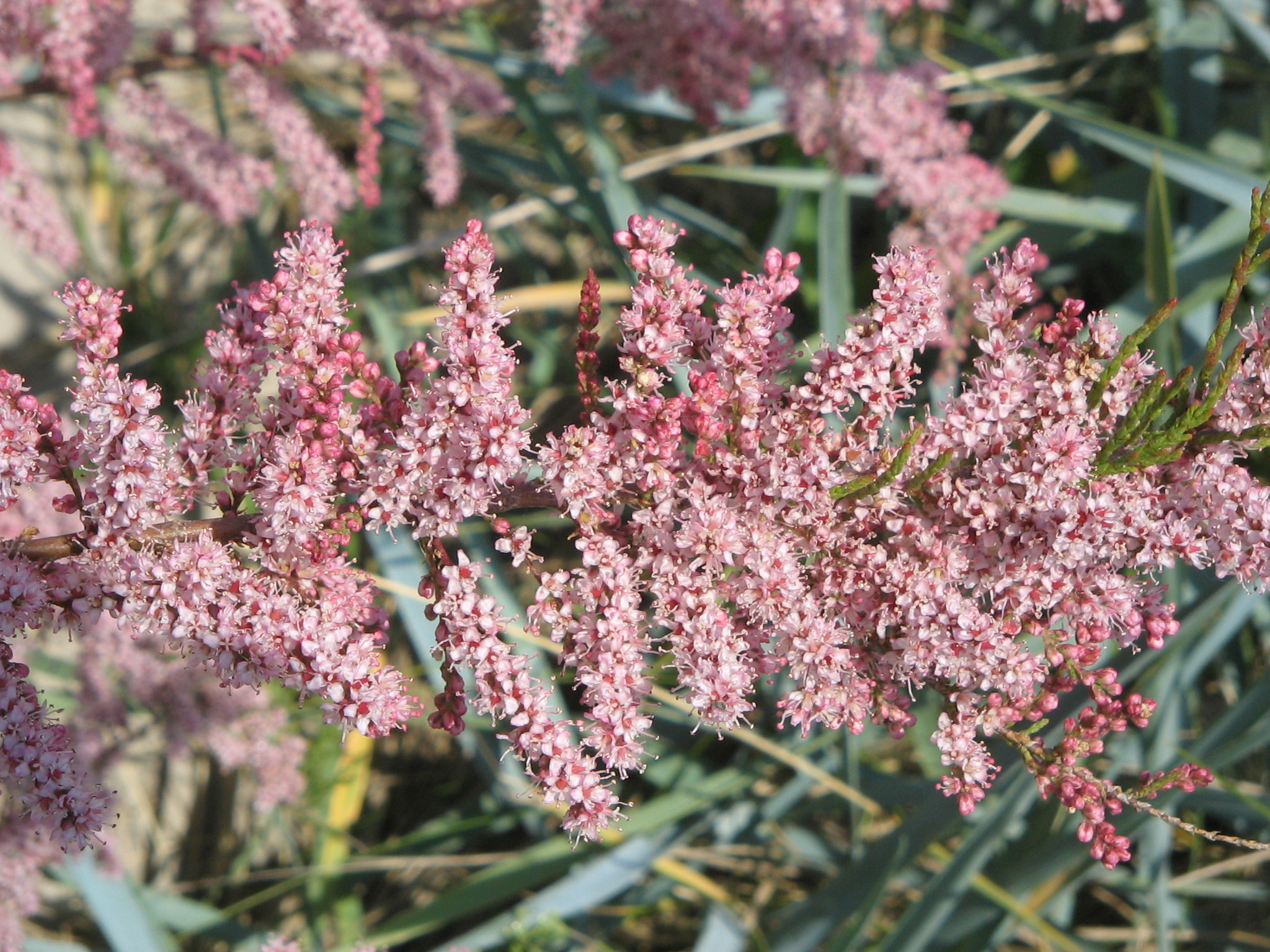 Tamarix gallica flowers